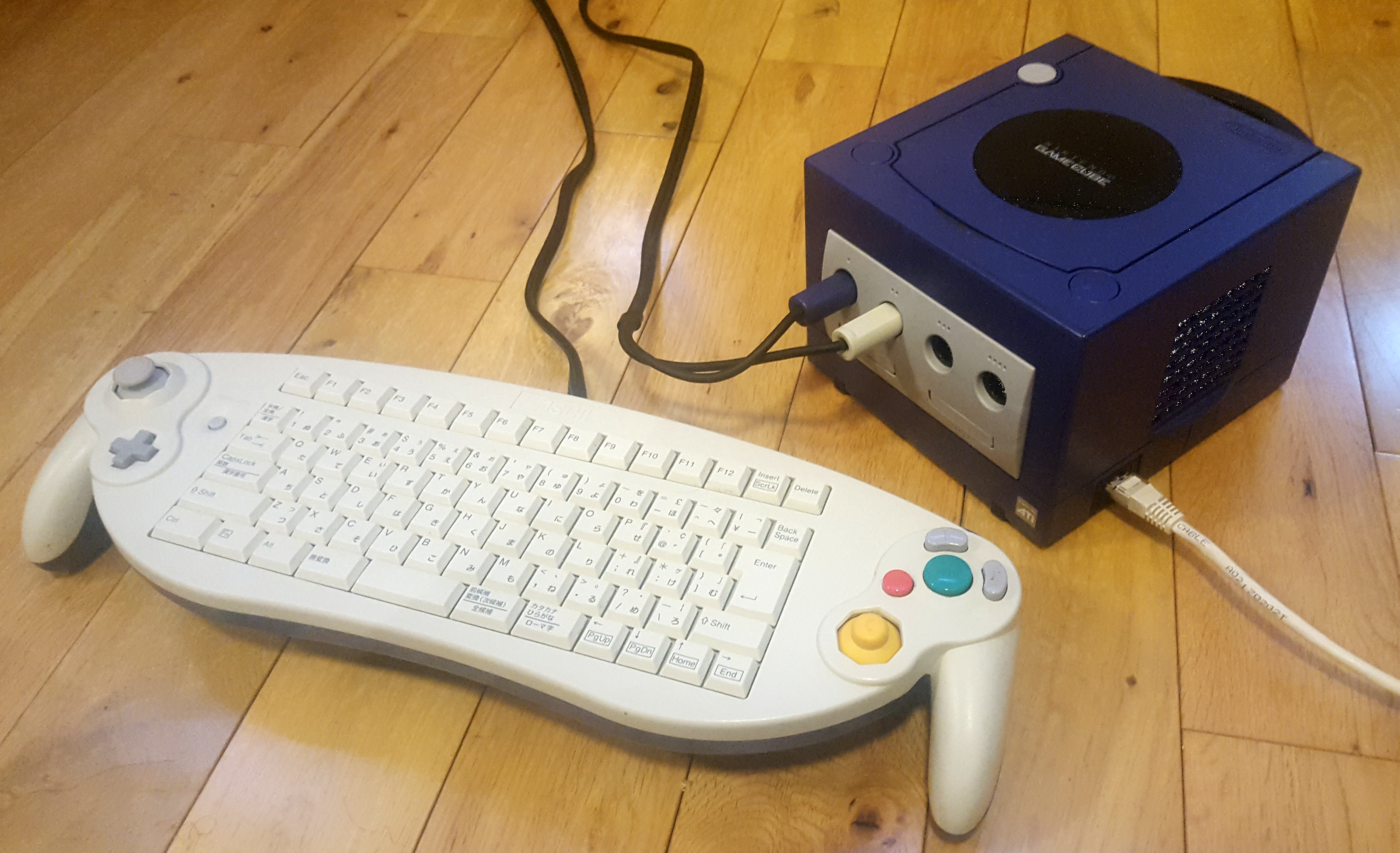 GameCube with a broadband adapter installed (ethernet cable is plugged into it on the side) and an ASCII keyboard controller for playing Phantasy Star Online